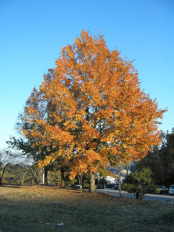 statue of Liquidambar_formosana tree in autumn